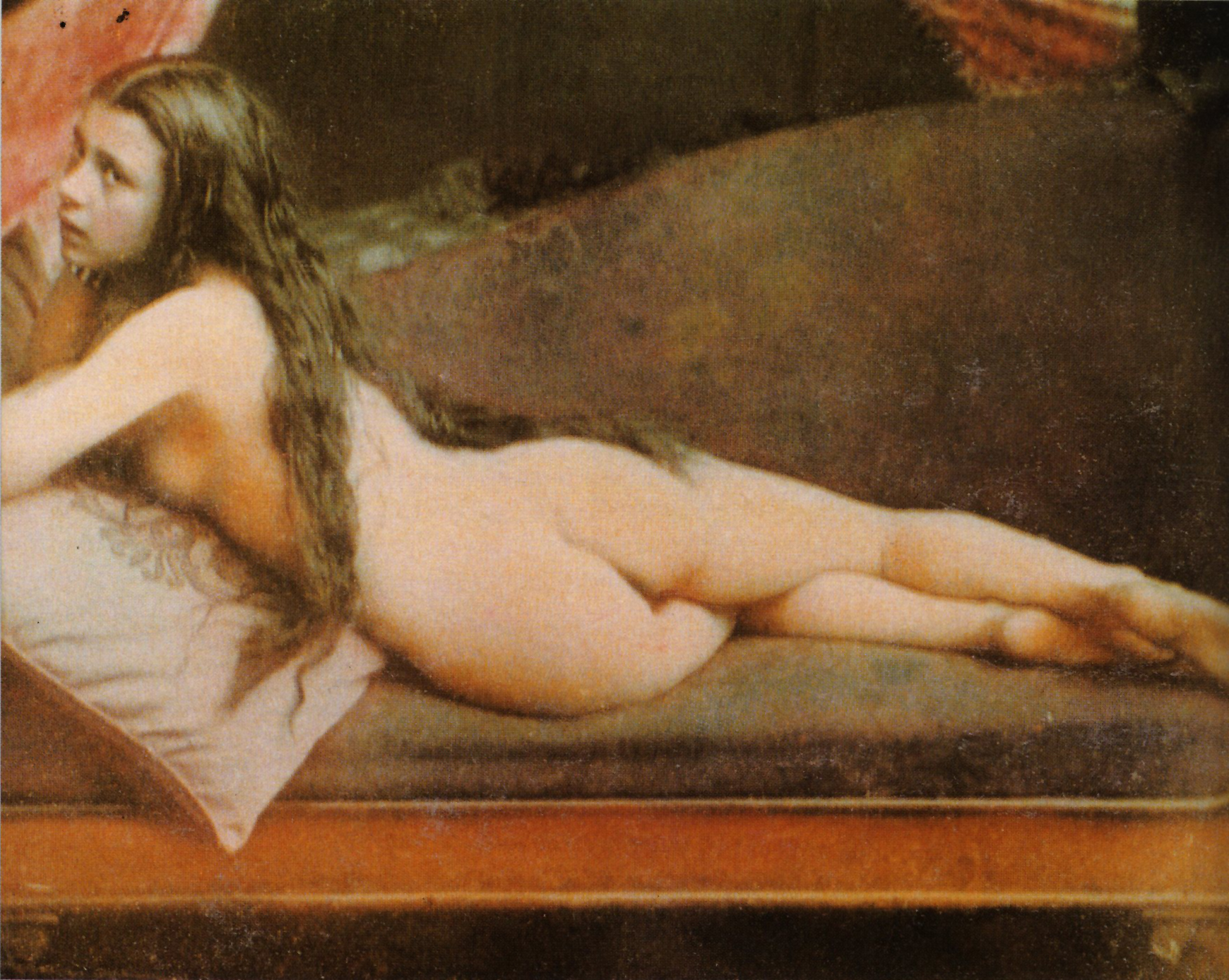 Coloured Daguerreotype